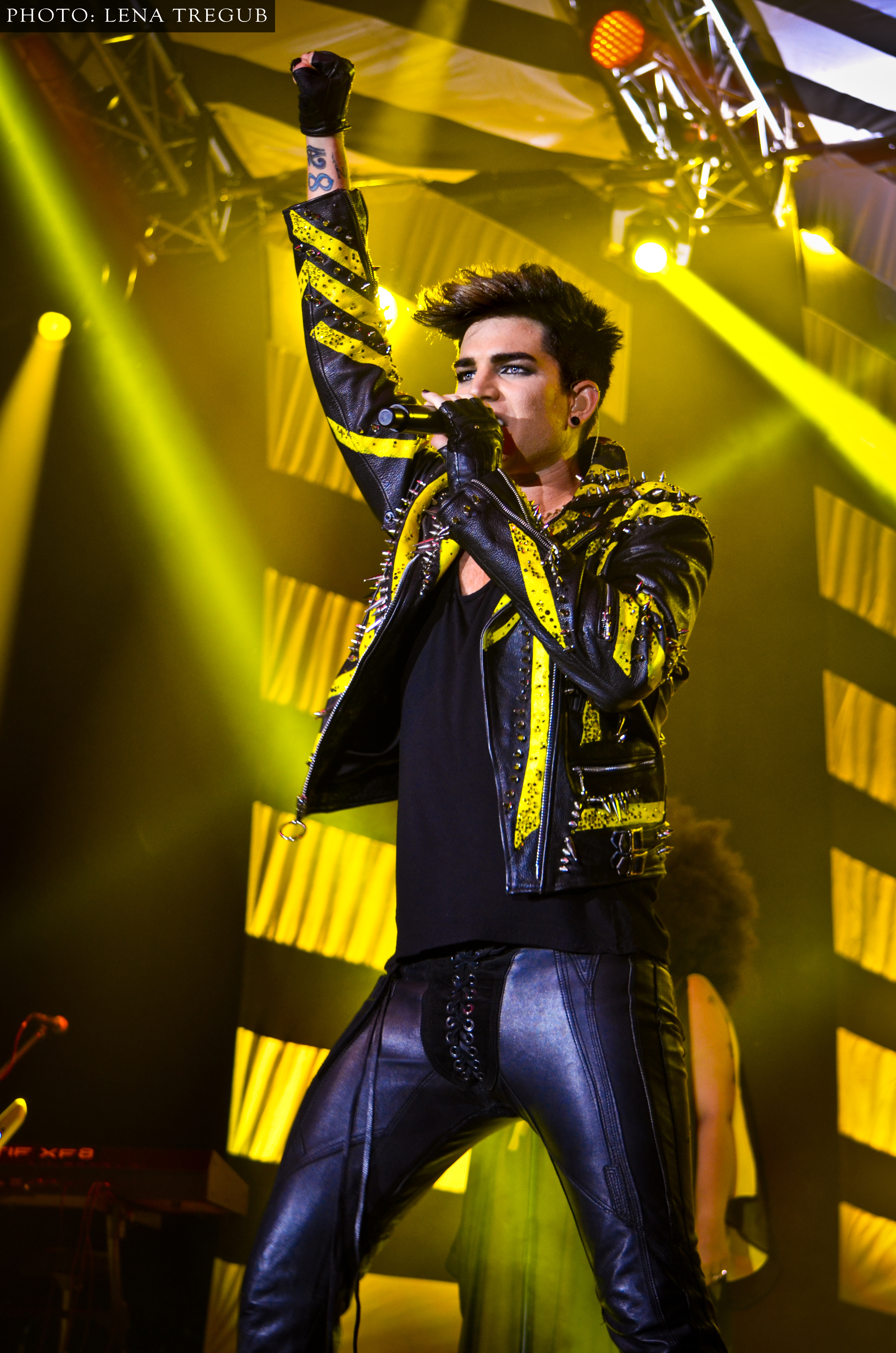 Adam Lambert performing on tour in Kiev, Ukraine March 2013